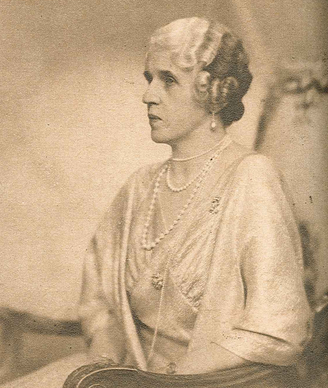 Louiser Rålamb (1875-1967), Swedish baroness and Mistress of the Robes (Swedish: överhovmästarinna) at the royal court of Sweden.